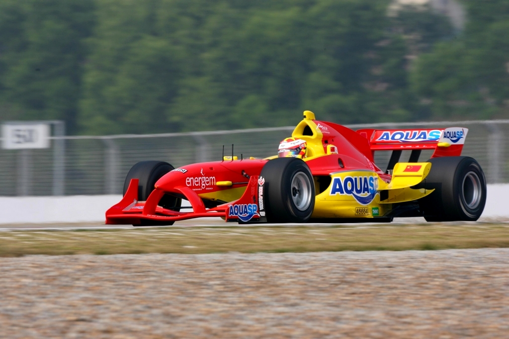 Cheng Cong-Fu driving the A1 Team China car in the 2007 A1GP race at Zhuhai International Circuit.